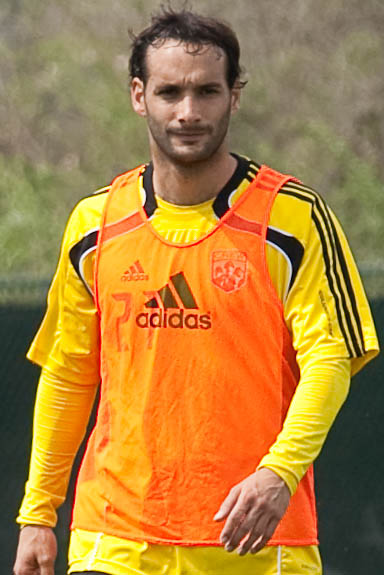 I shot this photo during training on 4/15/2011 at Columbus Crew Training Center in Obetz, Ohio.